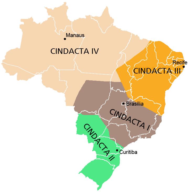 Map of CINDACTAs ("Centro Integrado de Defesa Aérea e Controle de Tráfego Aéreo (Integrated Air Traffic Control and Air Defense Centers)) in Brazil, as described on Brazil's 2006-2007 aviation crisis and using information from a map at [1] CINDACTA I (Brasília) CINDACTA II (Curitiba) CINDACTA III (Recife) CINDACTA IV (Manaus)